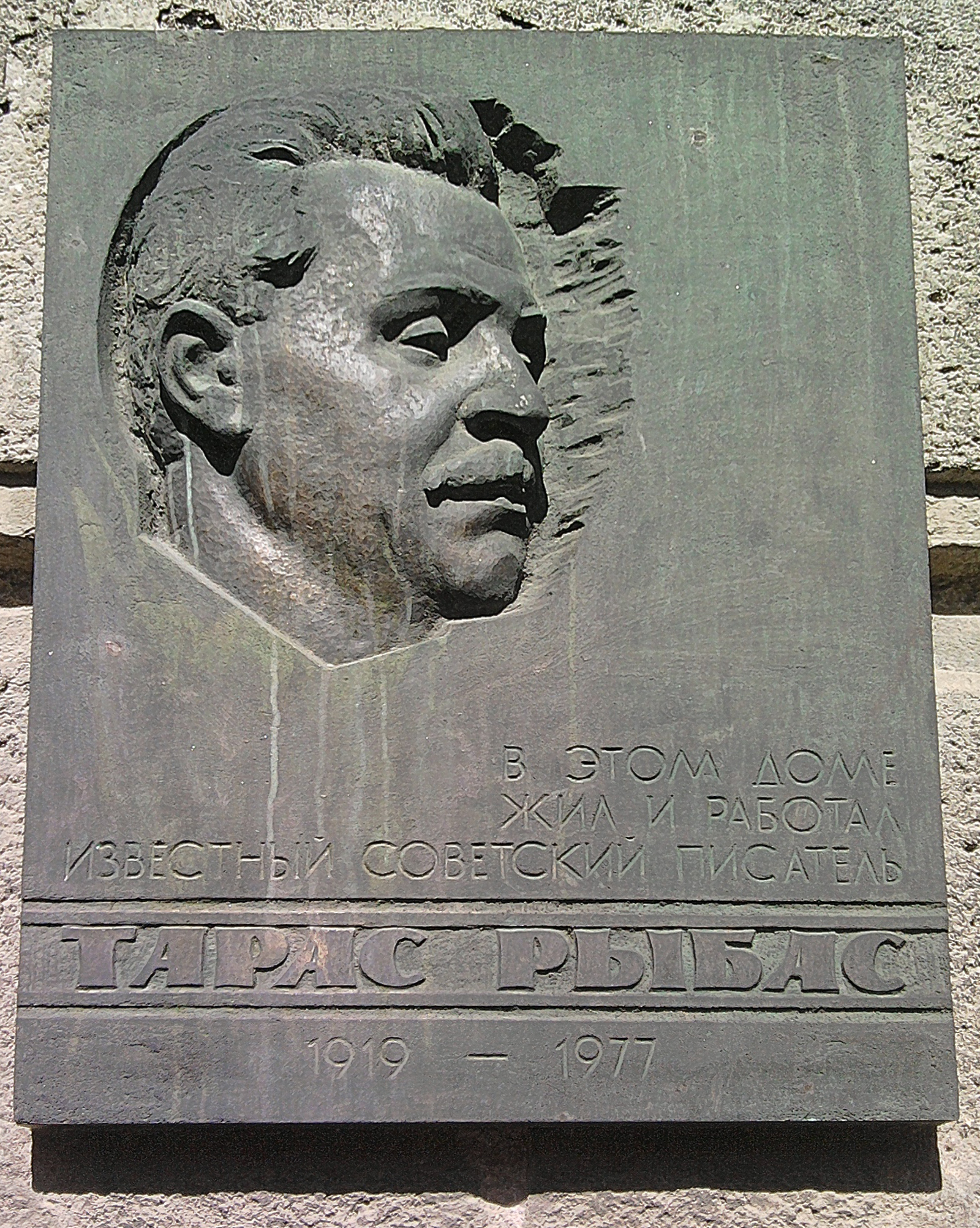 Commemorative plaque on the house where Taras Rybas was living (2, Sverdlov street, Luhansk)